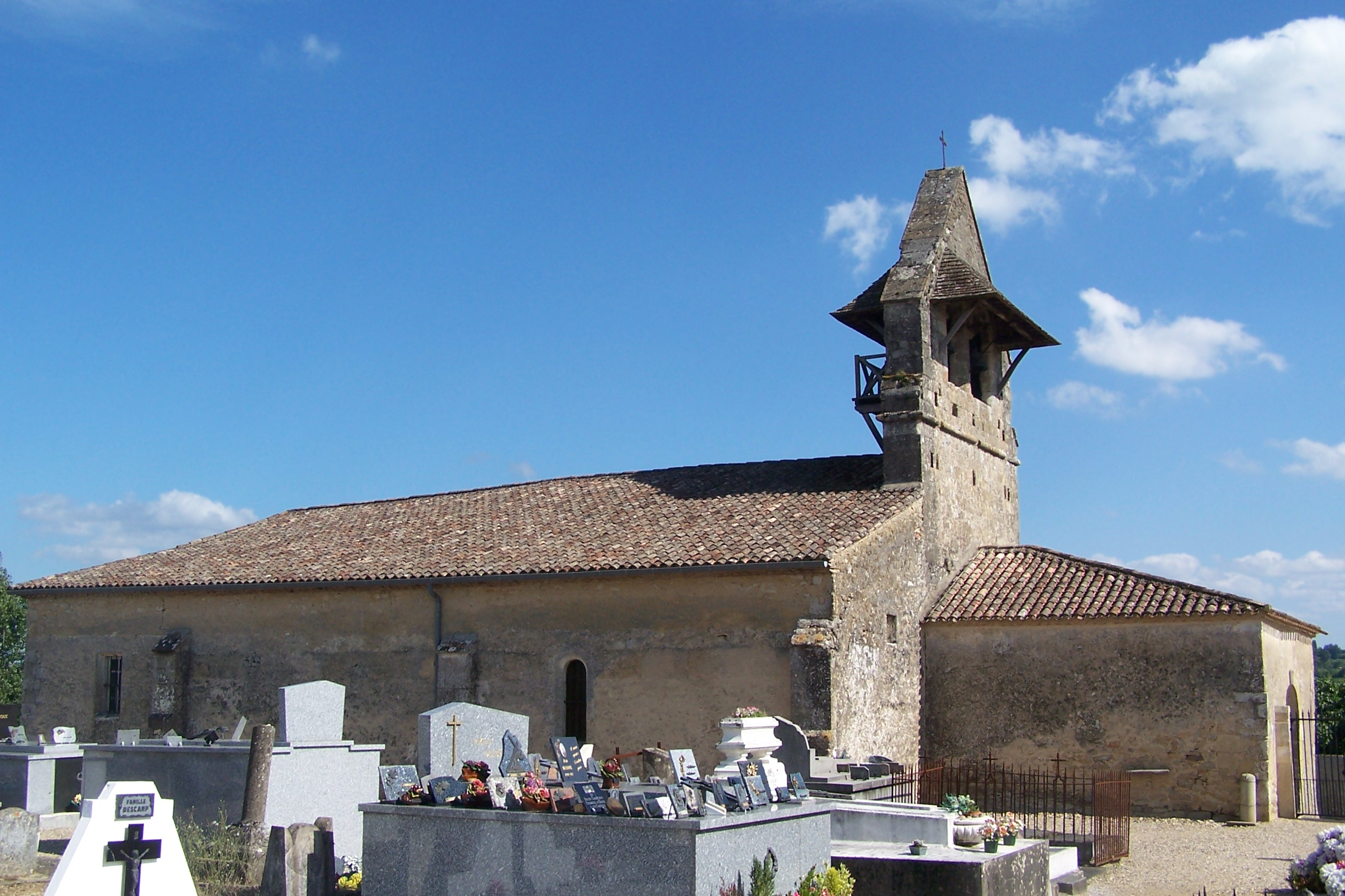 Church Saint-Pierre Camiran (Gironde, France)